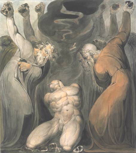 The Blasphemer, as in Leviticus 24:13-23, by William Blake (1757-1827), circa 1800, ink and watercolor, at the Tate Collections